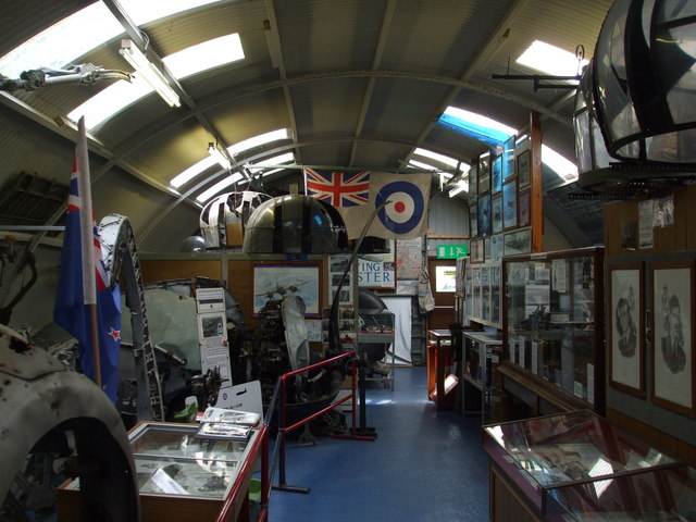 Inside one of the Nissen huts at Flixton airfield museum.